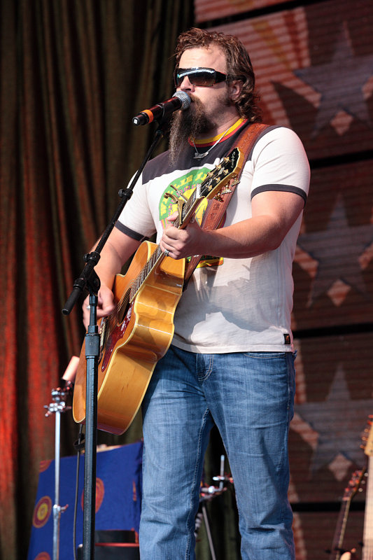 Jamey Johnson performing at Farm Aid 2008